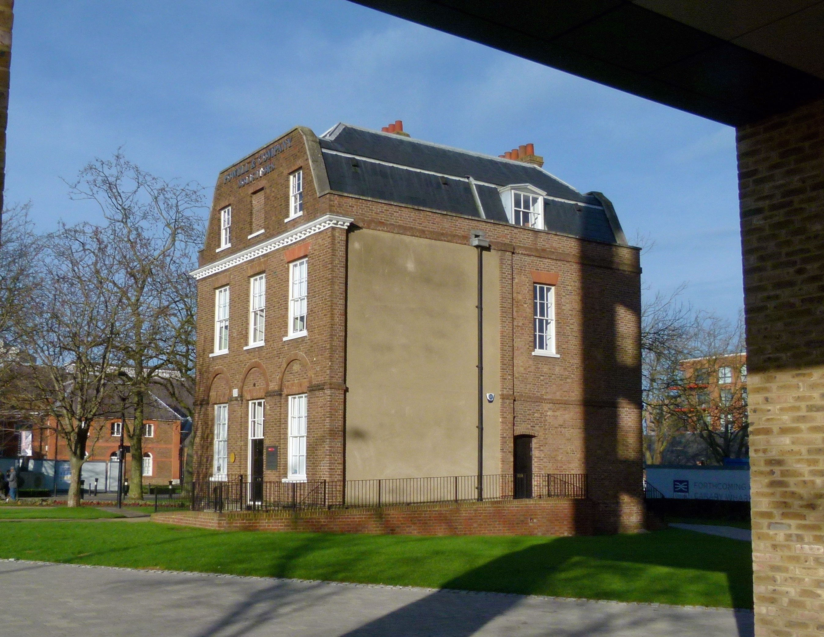 View of Verbruggen House from the arcade of Cadet House, Royal Arsenal, Woolwich, south east London.